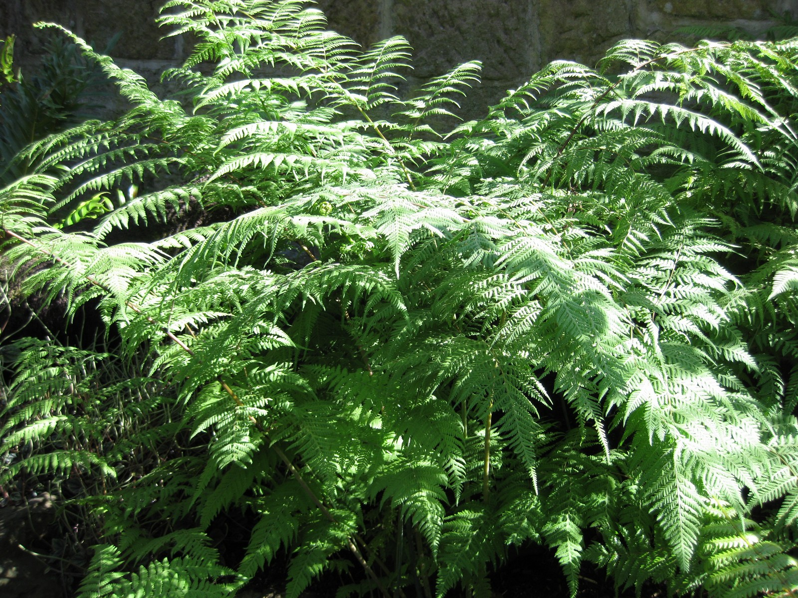 Photographed at the Royal Botanic Gardens Sydney (Australia) in December